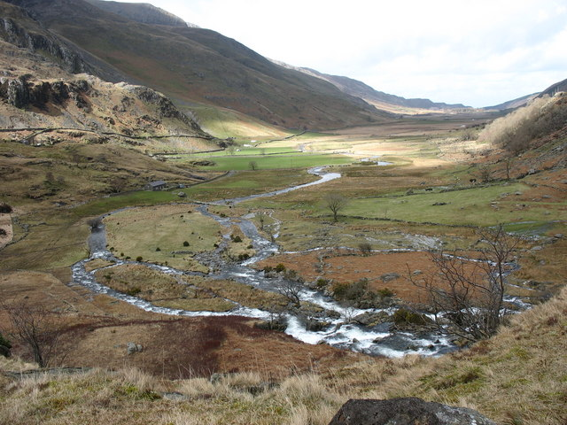 The Braided Ogwen below Rhaeadr Ogwen Falls.